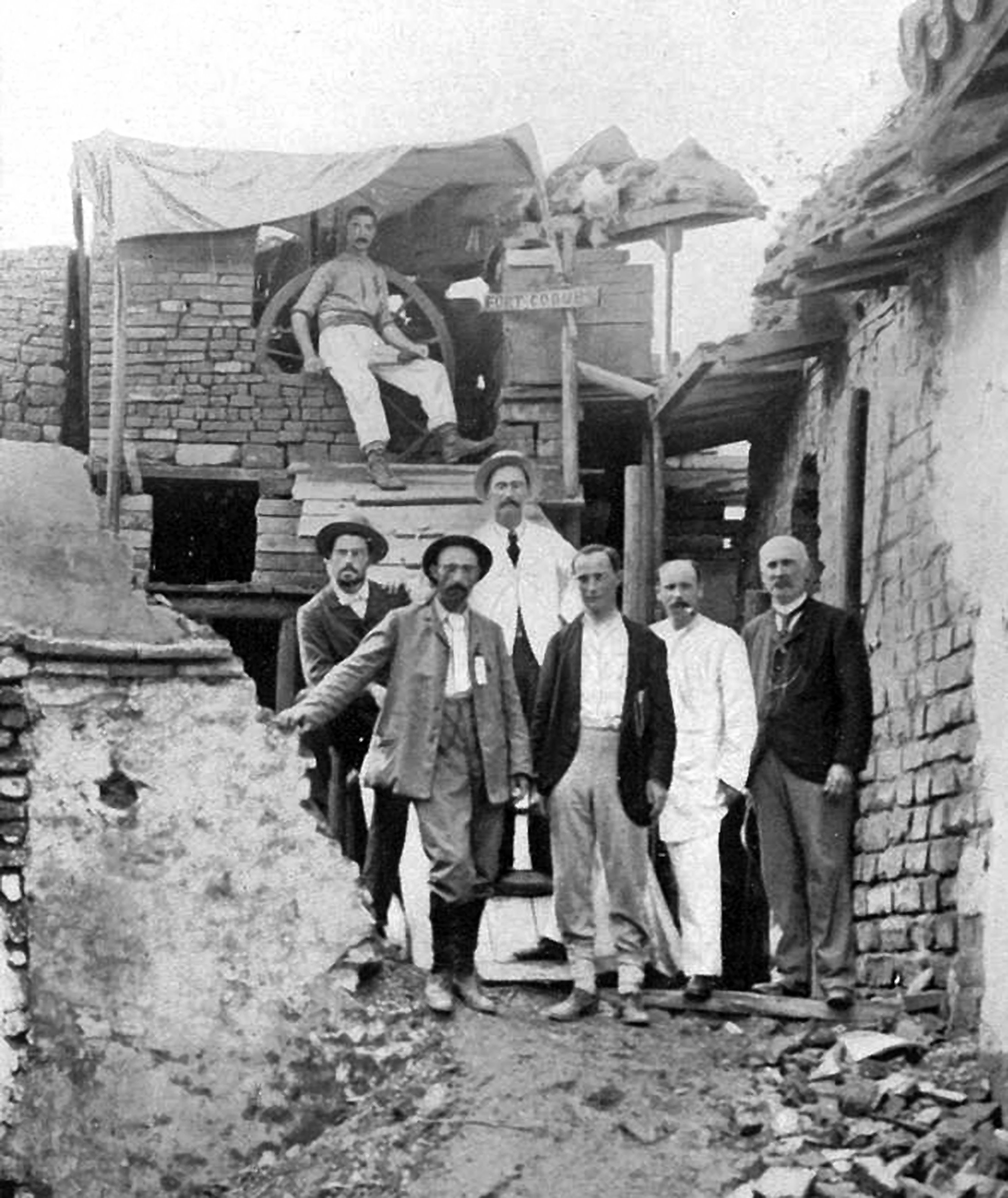 A photo of the "fighting parsons" published in Smith's book.